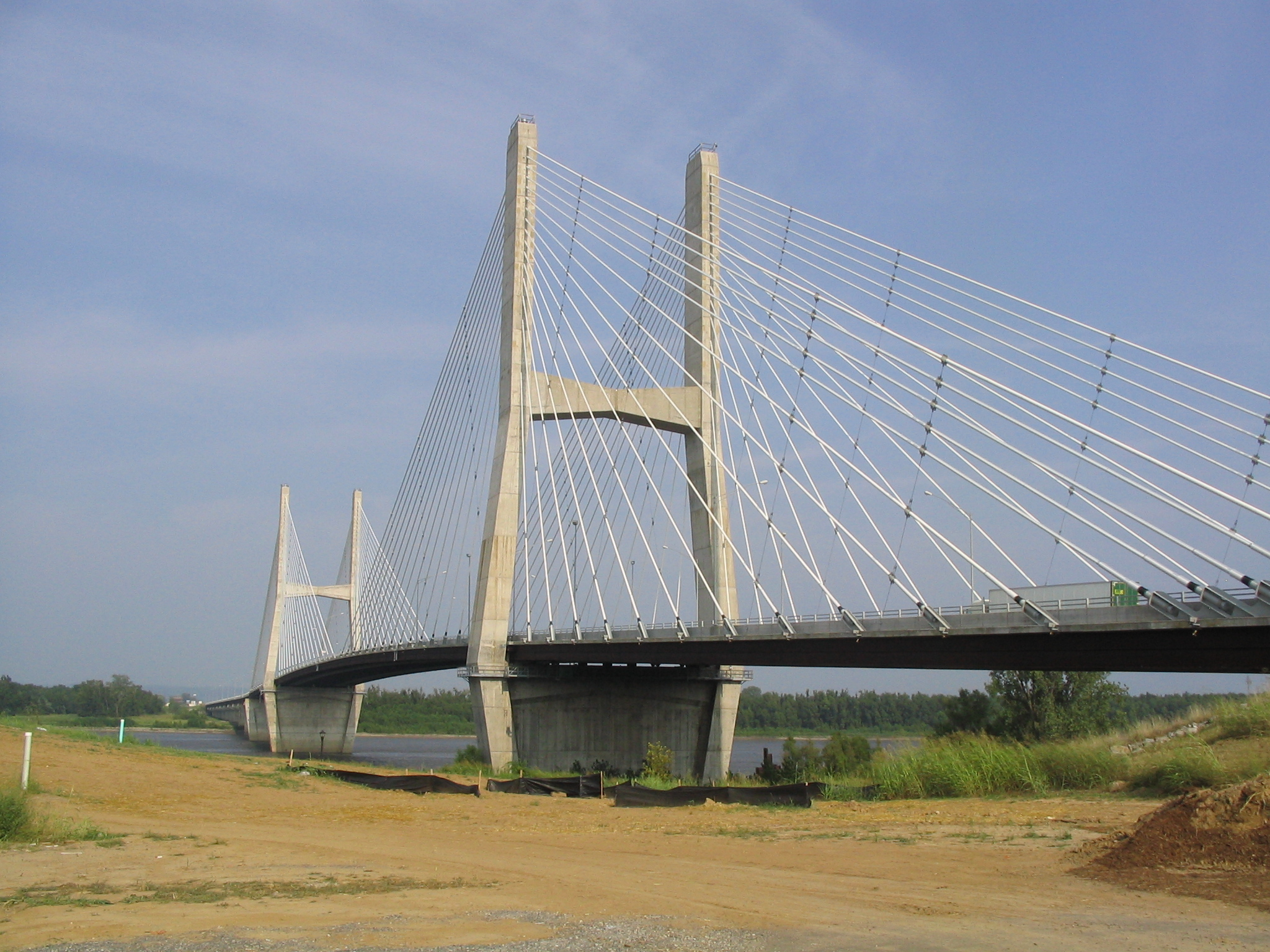 The Bill Emerson Memorial Bridge crossing the Mississippi from Cape Girardeau, Missouri to East Cape Girardeau, Illinois